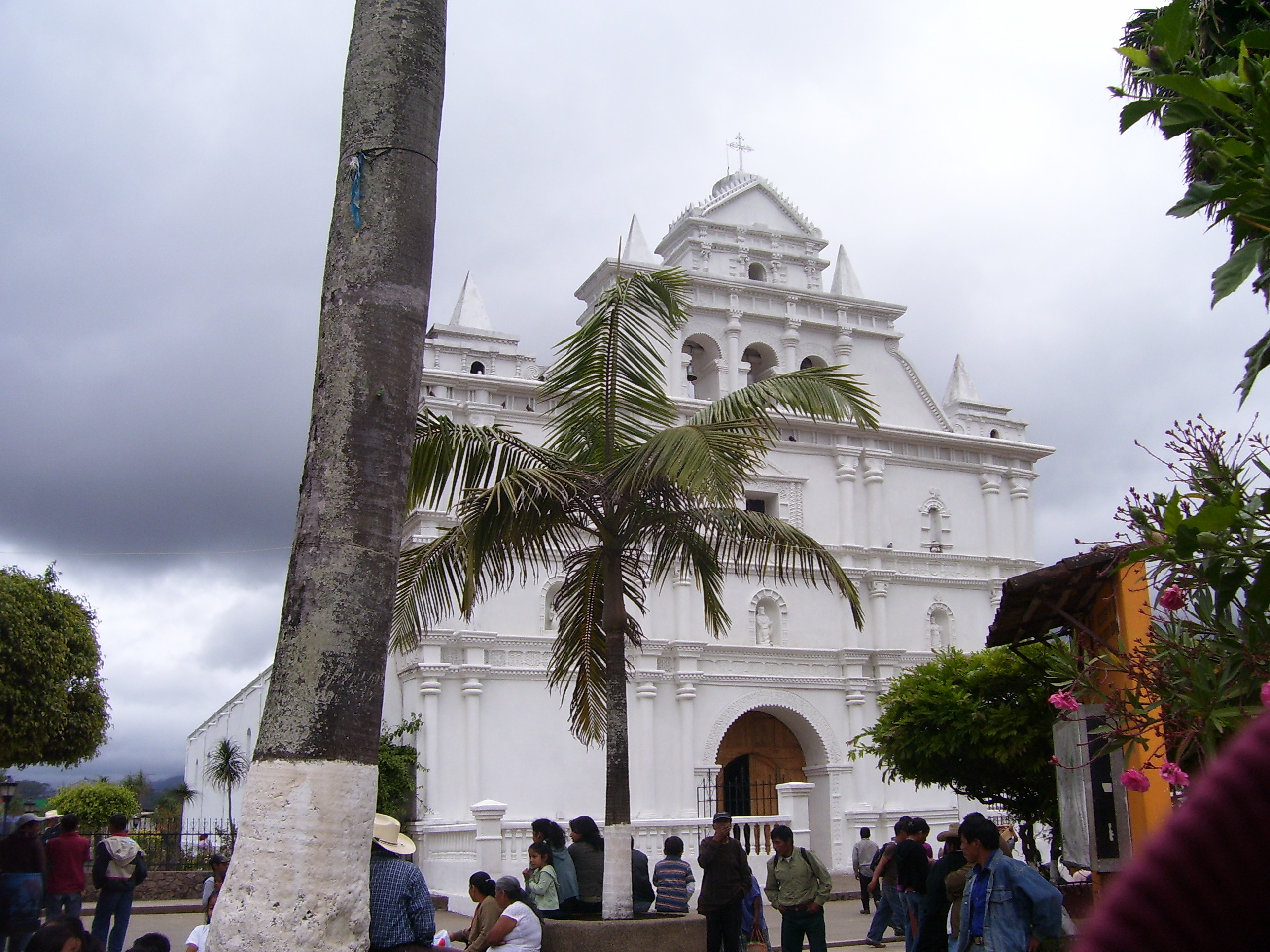 Iglesia Parroquial de San Cristóbal Verapaz